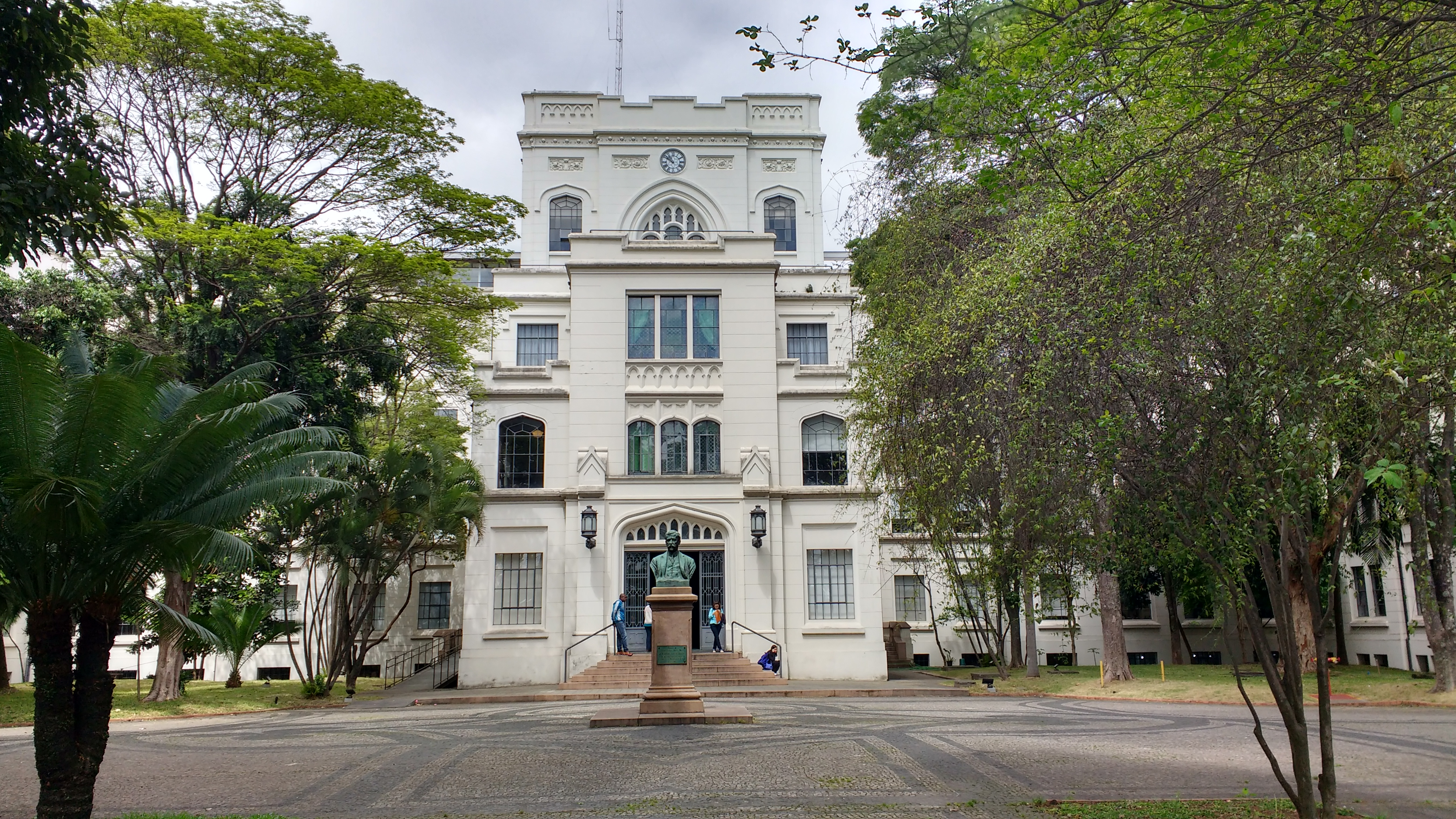 Frontal side of the main building.